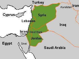 The modern Levant